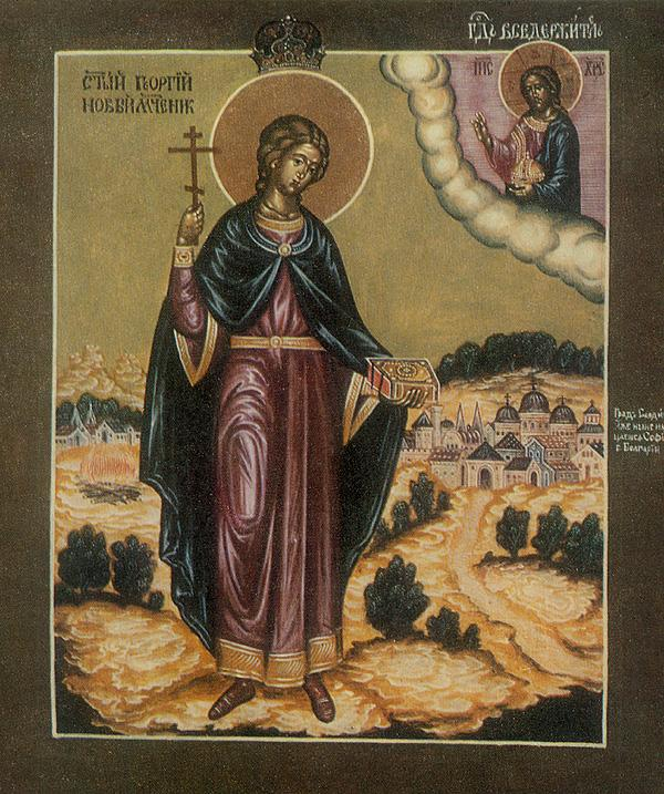 St. George, Newmartyr of Sofia Category:Eastern Orthodox icons Captioned As { }